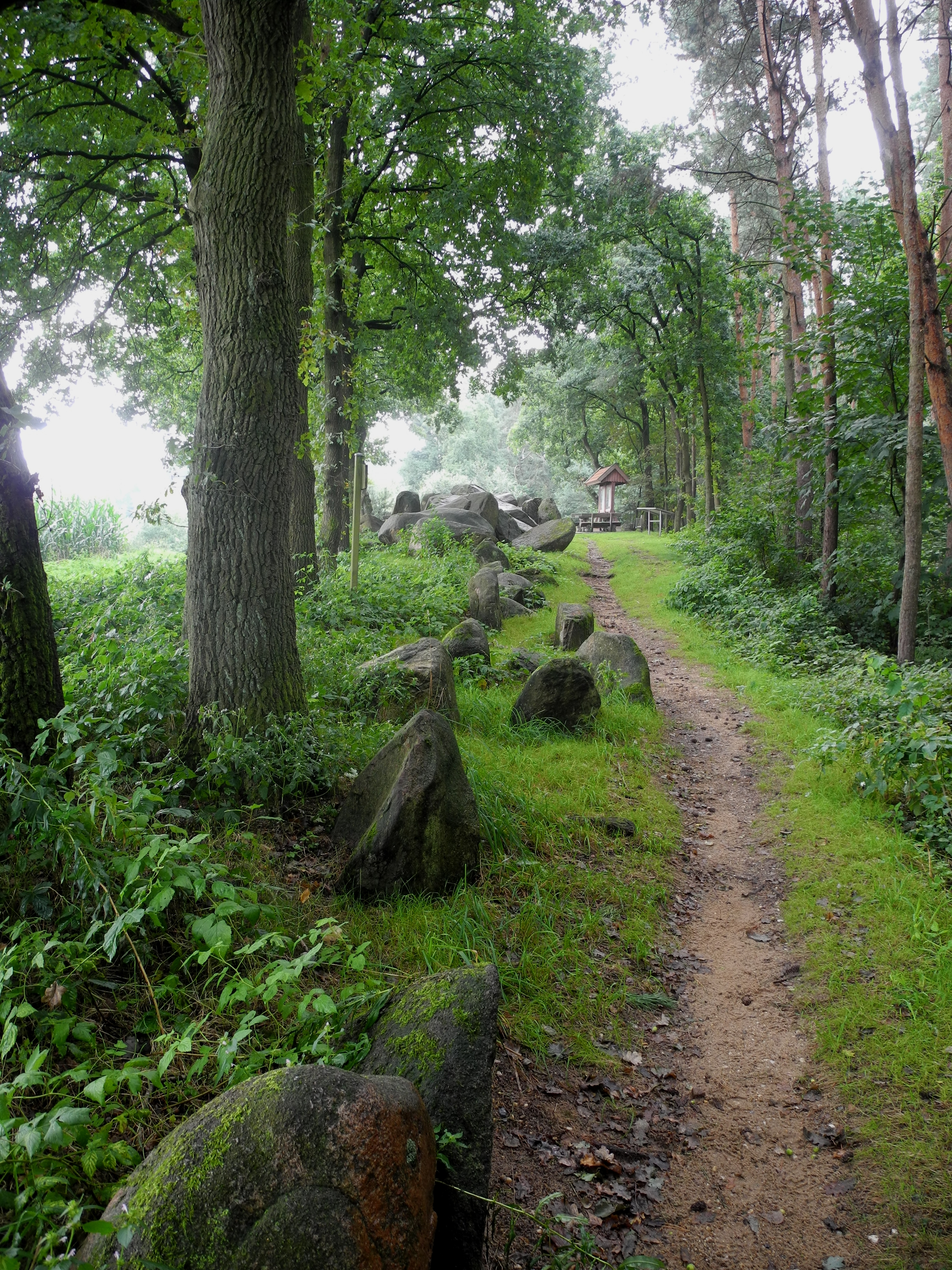 Stone row between megalithic graves "Hekeser Steine A" and "Hekeser Steine B". View from "Hekeser Steine A" towards "Hekeser Steine B" (district Osnabrück, Lower Saxony, Germany).